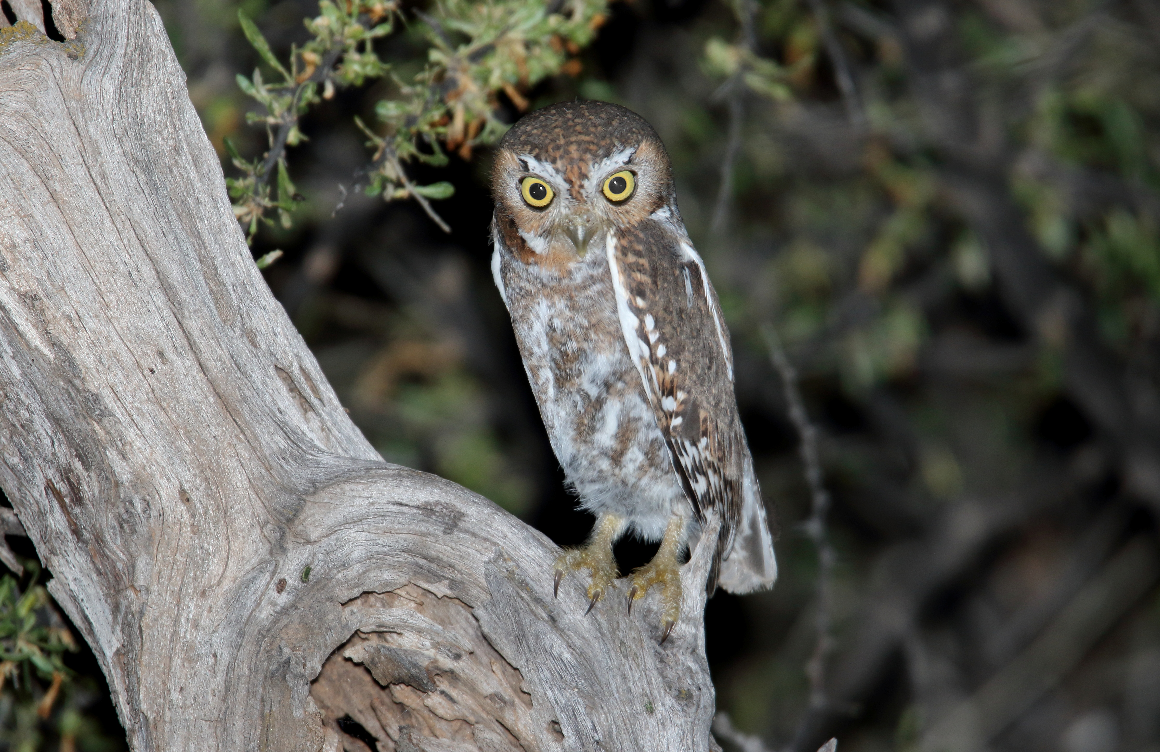 Elf Owl (Micrathene whitneyi)